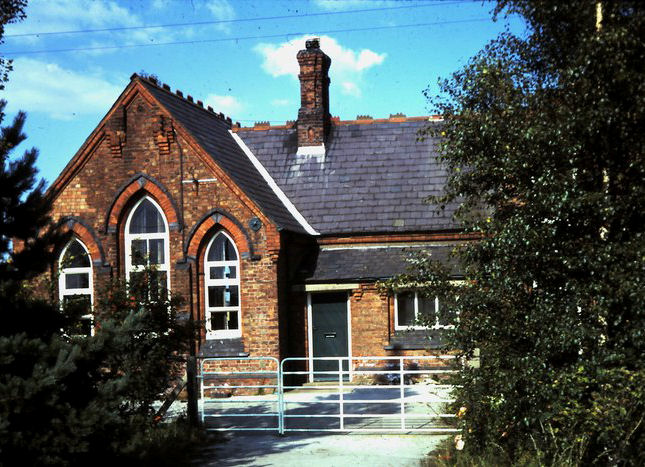 Hedgehog Bridge School, Brothertoft, Lincolnshire, England in 1980